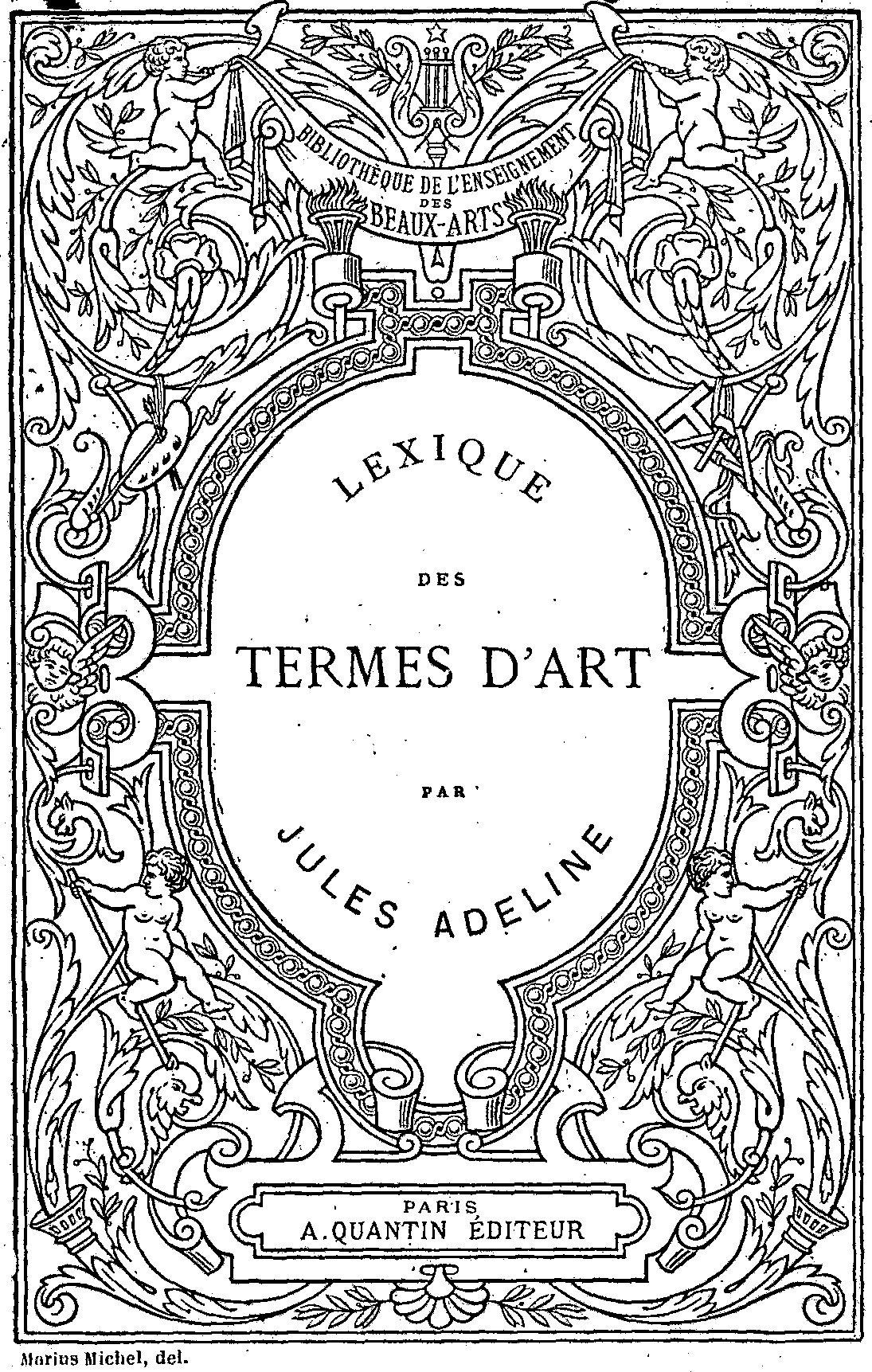 Title page of "Lexique des termes d'art" (1884) by French printmaker Jules Adeline (1845-1909). Translated into English as "Adeline's Art dictionary: Containing a complete index of all terms used in art, architecture, heraldry, and archaeology", Frederick Ungar, New York, 1966.